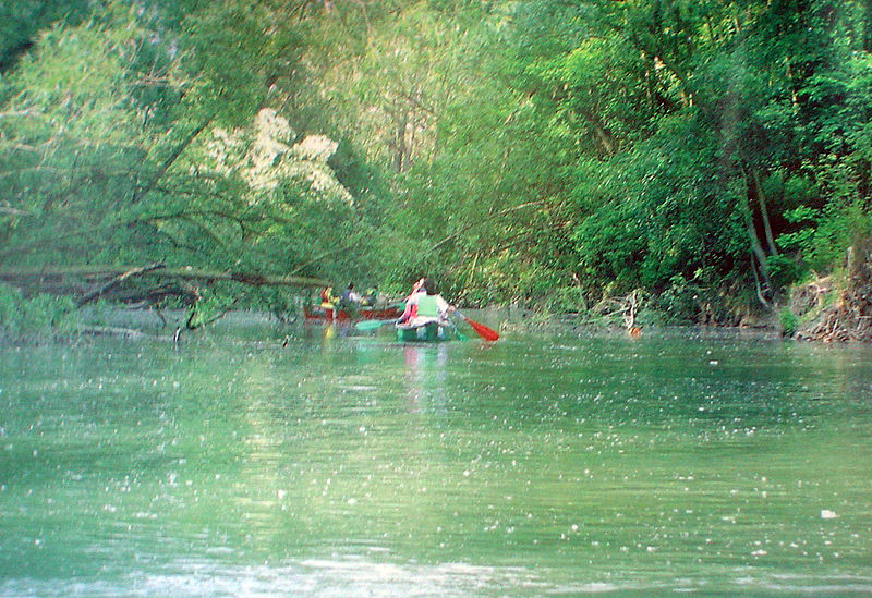 Savio River Nature Reserve — in Emilia-Romagna, Italy.